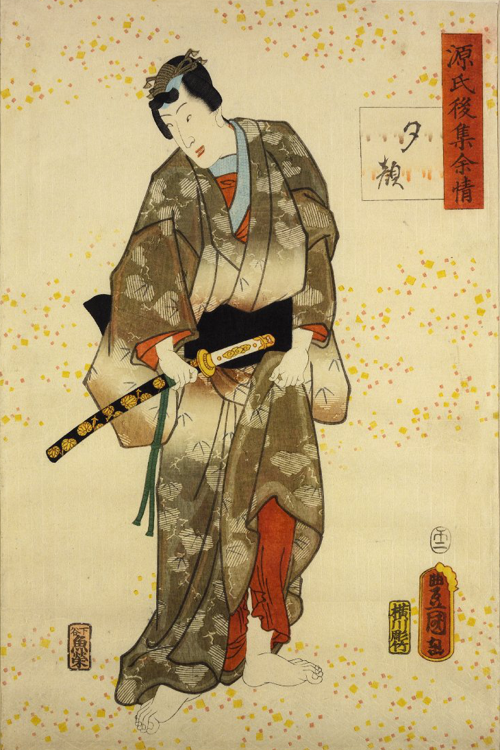 Prince Genji in anachronistic Edo period garb and hairdo, from a parodic work entitled Genji Gojū yojō loosely translated "Modern Feelings" or more precisely translated "Lasting impressions of a later Genji collection" (the phrase is somewhat of a gibberish, since it is just a homophone pun on "fifty-four chapters" of The Tale of Genji). Corresponds to Chapter 5, "Yūgao". This half of the diptych labeled "Yūgao", the opposite half depicting a woman fixing pillow labeled "Chapter 5"